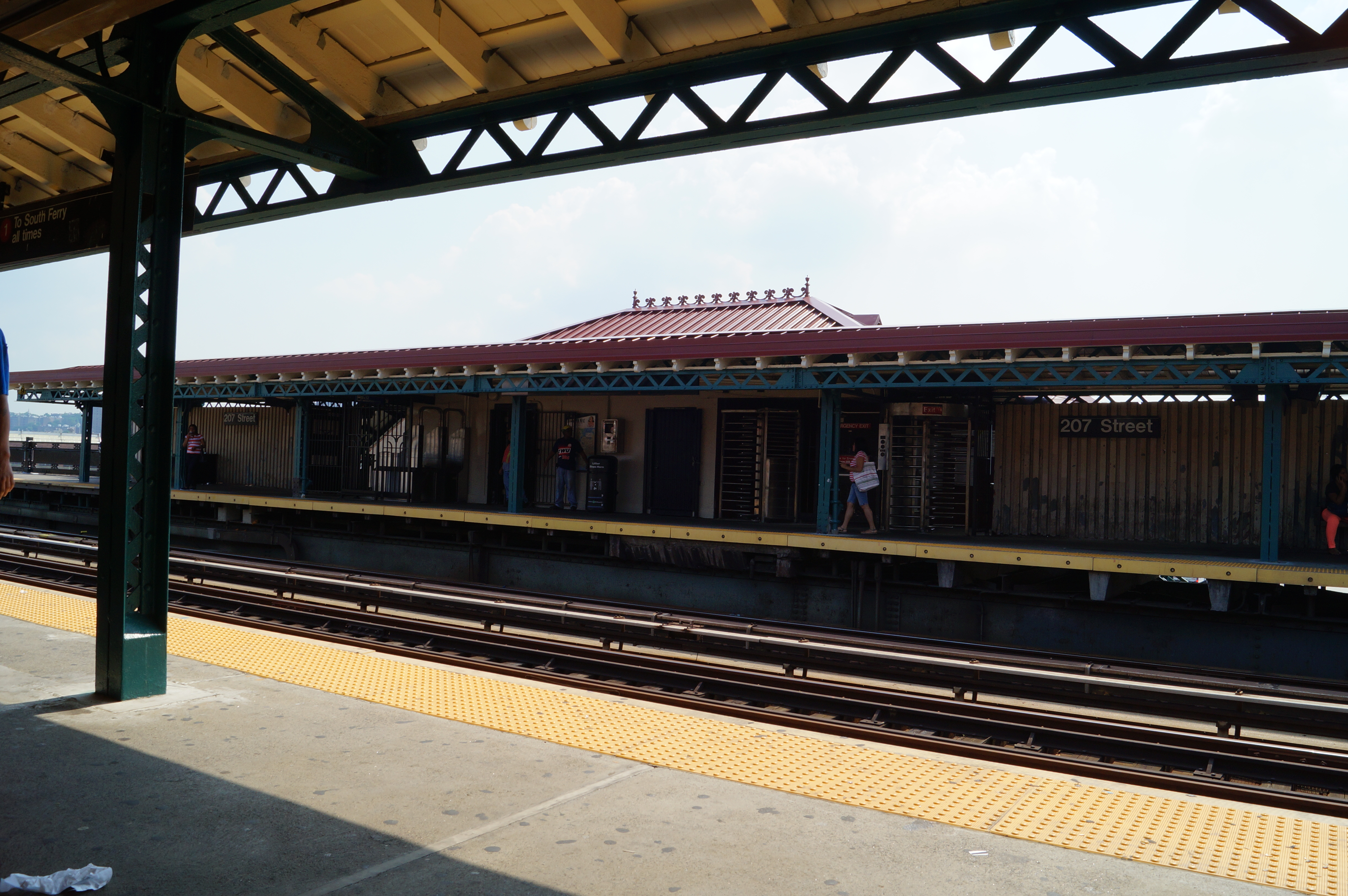 A view of the MTA NYC Subway 207th St. (1) train station.